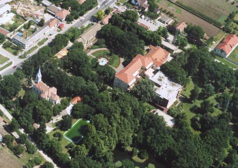 Desz, castle, Hungary, aerial photography (Gerliczy Mansion)